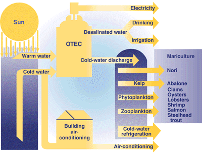 Ocean thermal energy conversion diagram and applications